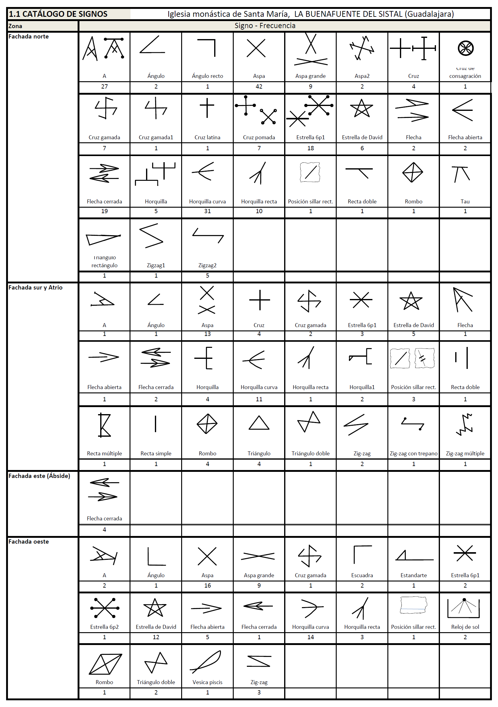 Santa María monastery, BUENAFUENTE DEL SISTAL (Guadalajara) Castilla-La Mancha, Spain. Romanesque- Cistercian s. XII. Stonecutter marks catalog.